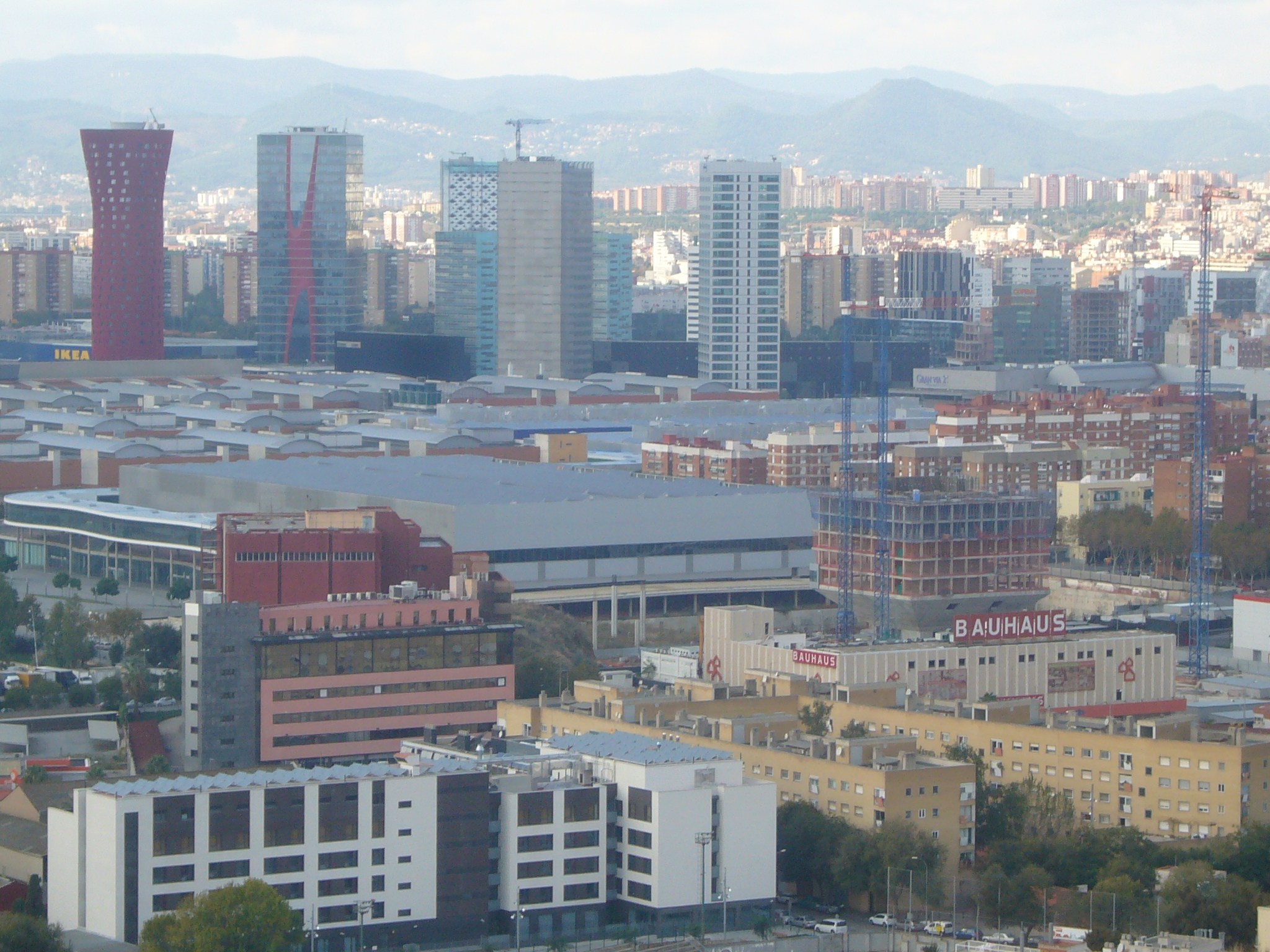 Granvia L'H, seen from cementiri de Montjuic